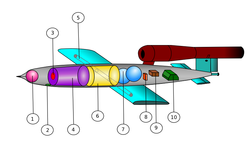 The main components of the missile V1.